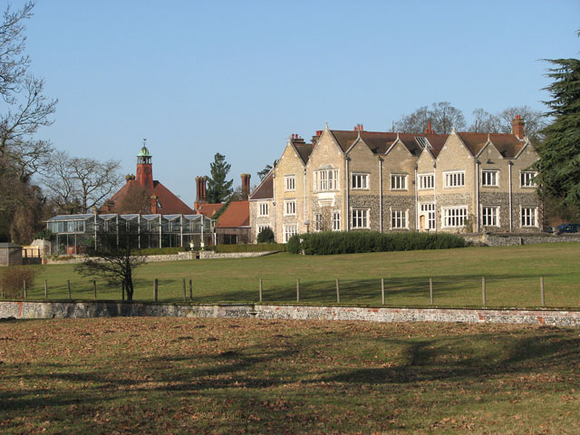 Kilverstone Hall viewed across the ha-ha